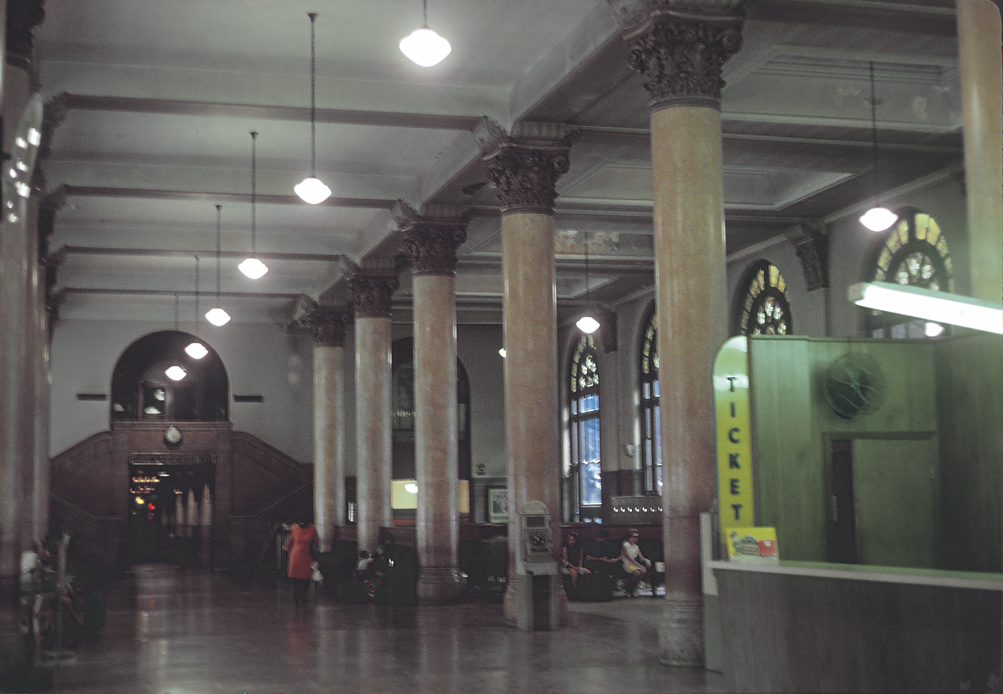 Waiting Room at Grand Central Station, Chicago, IL on August 30, 1969.